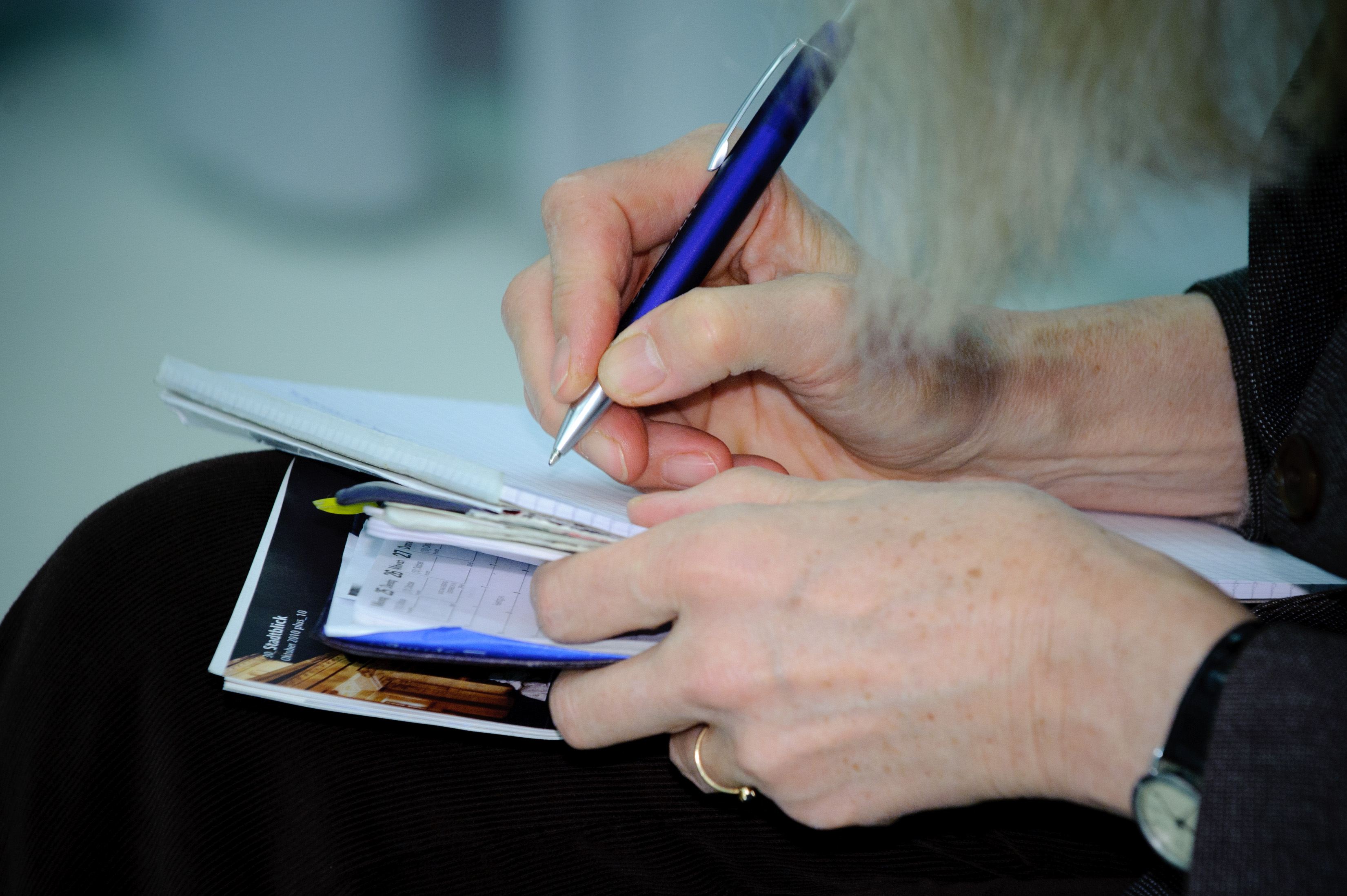 Foto: CC-BY-SA Stephan Röhl /